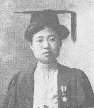 A young Asian woman wearing a mortar board and academic gown, with a medal pinned to the gown. Her dark hair is dressed up and slightly puffed under the mortar board.